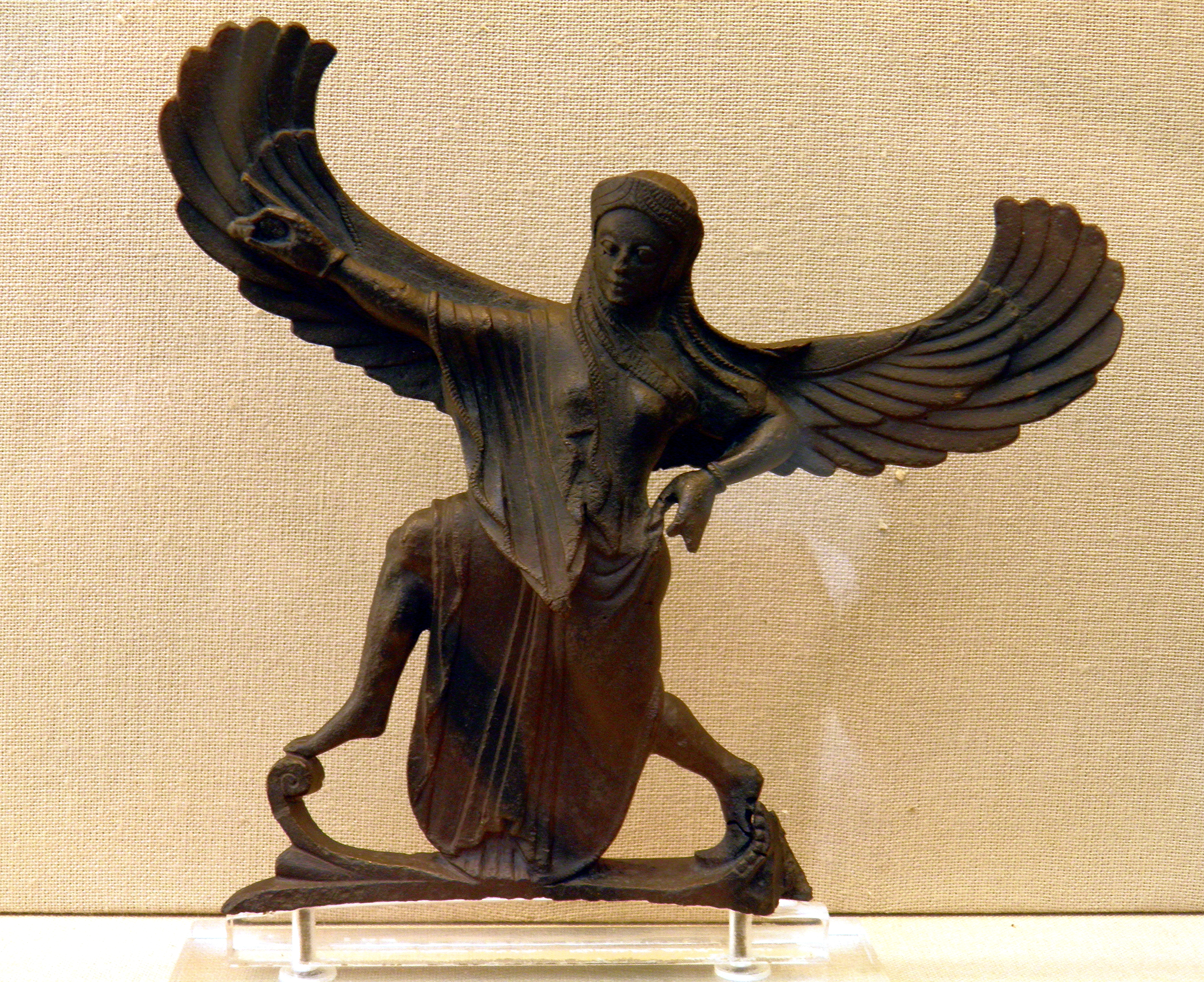 Early Greek representations of Nike frequently shown her in this pose, with arms and legs bent sharply, as if running, and wings outstretched. Later more naturalistic poses emerged, with the goddess appearing as if flying. This figure was originally attached to a vessel. It dates to c.500 BC and was possibly made in Taranto, Italy. Catalogue entry